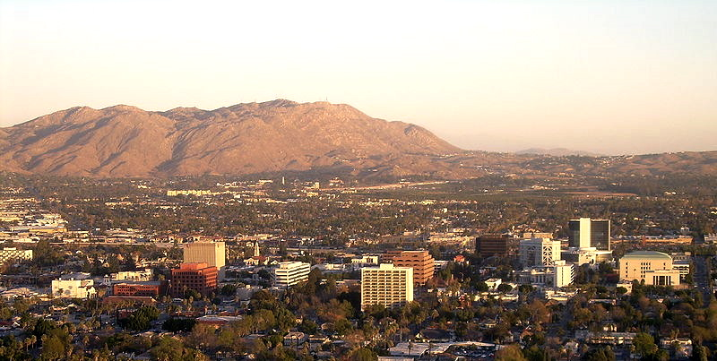 Riverside Skyline, with the Box Springs Mountains behind town.